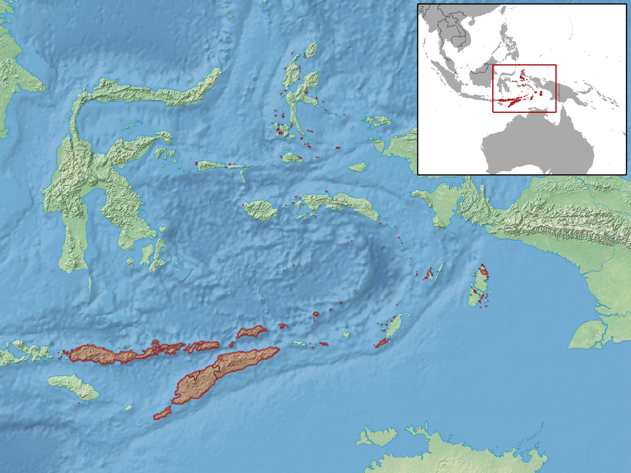 geographic distribution of Cryptoblepharus leschenault